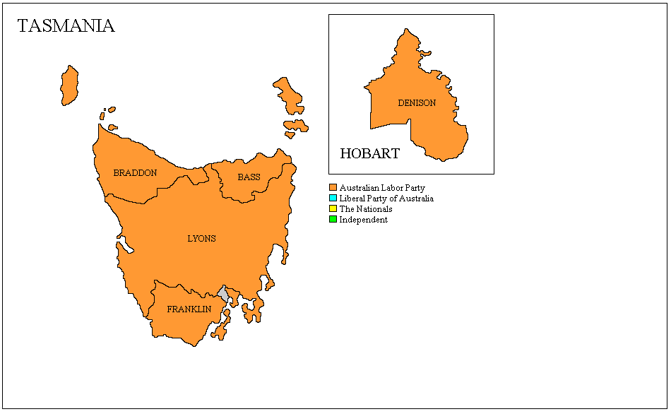 tasmania